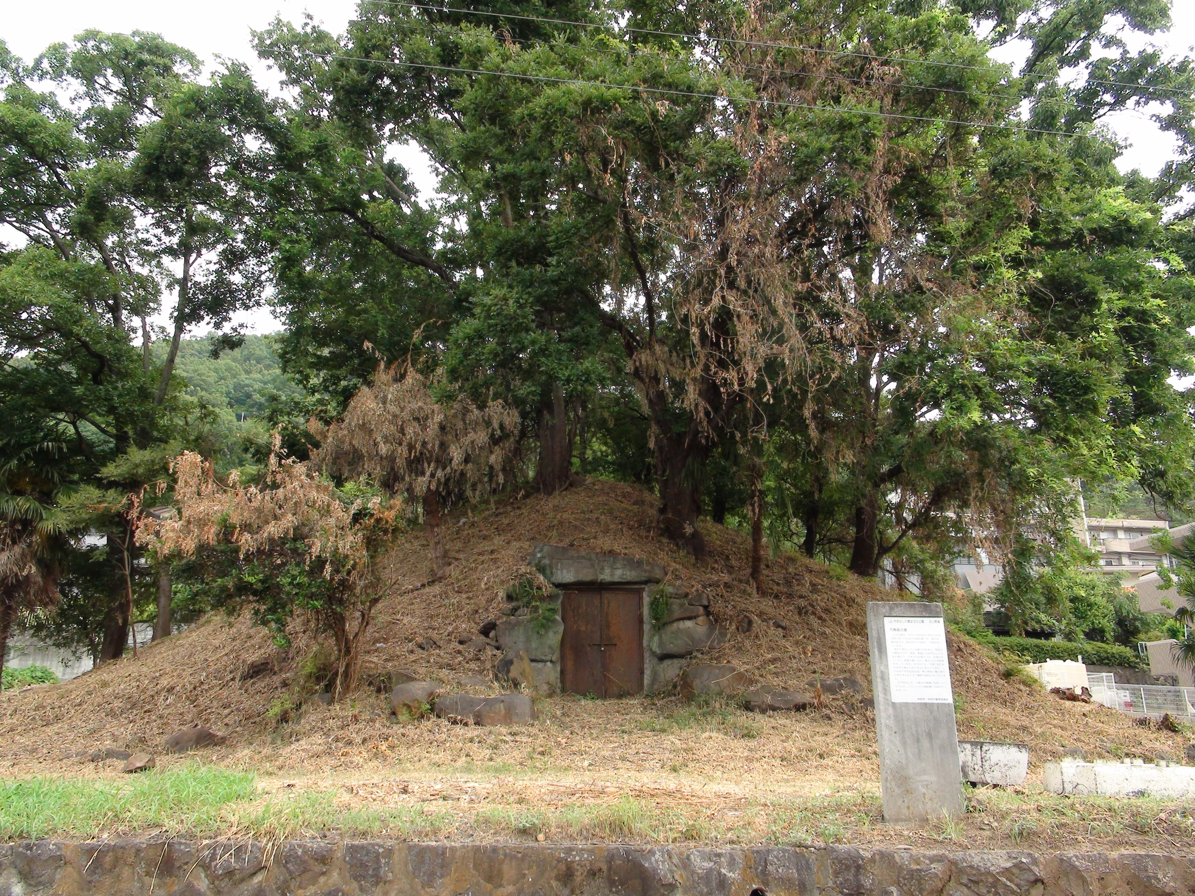 Manjumori Kofun Kofu Yamanashi